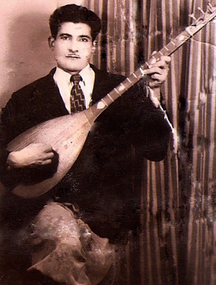 This portrait of Ashik Rasool Qorbani (رسول قربانی) was taken in 1955, when he was 22 years old.